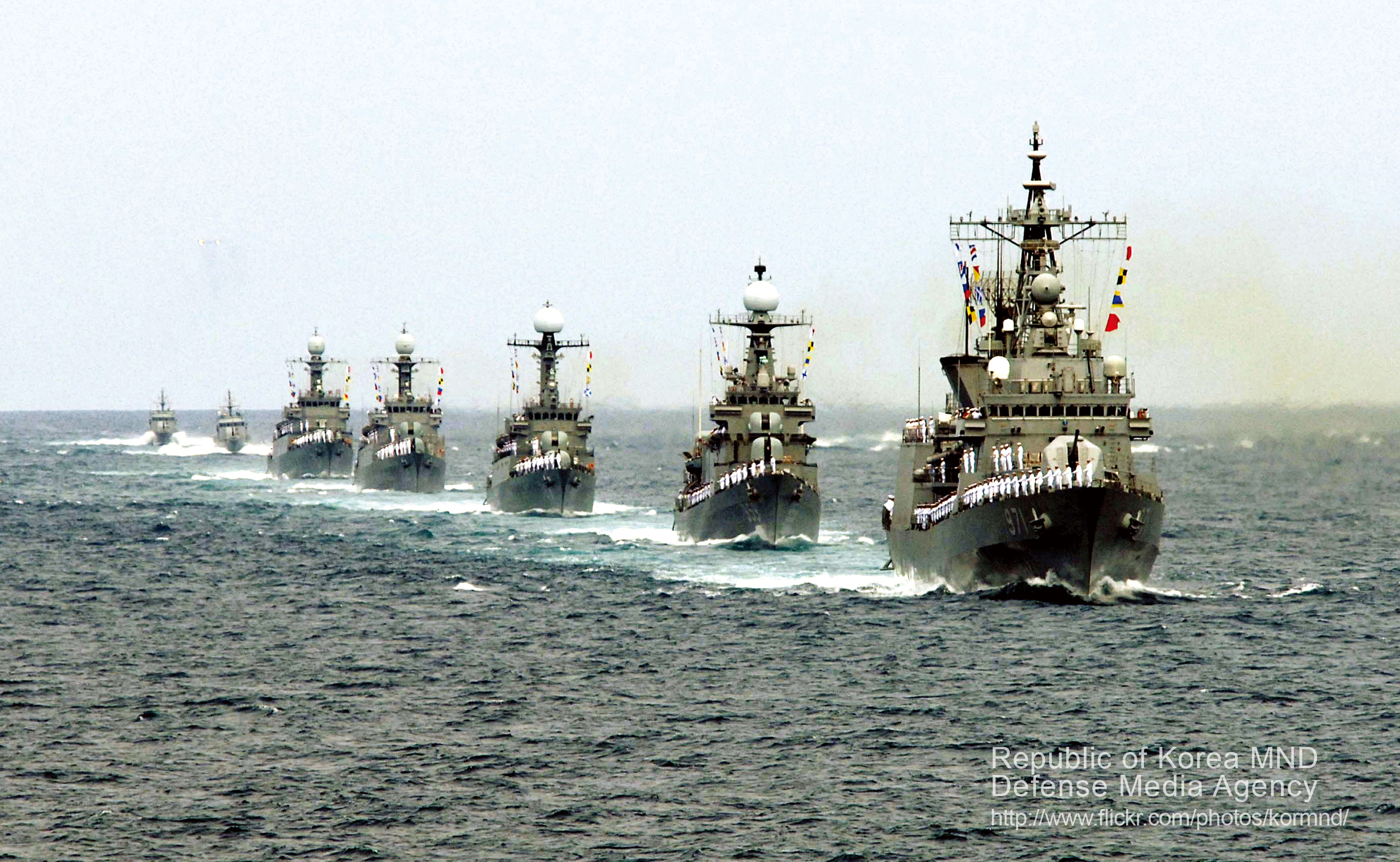 2009 국방화보 Rep. of Korea, Defense Photo Magazine 해군1함대의 해상사열 모습.